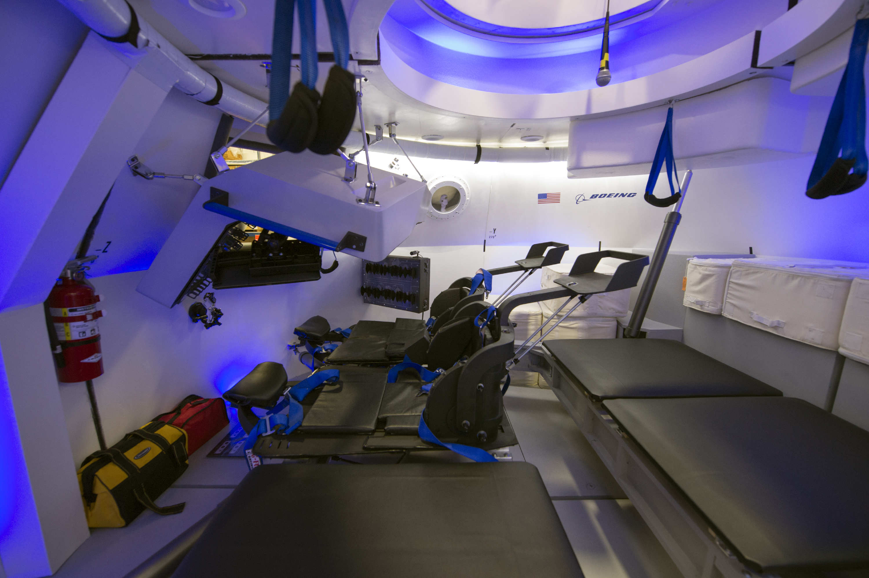 HOUSTON - The Boeing Company unveils the interior its fully outfitted CST-100 mock-up at the company's Houston Product Support Center in Texas. This test version is optimized to support five crew members and will allow the company to evaluate crew safety, interfaces, communications, maneuverability and ergonomics. Boeing's CST-100 is designed being to transport crew members or a mix of crew and cargo to low-Earth-orbit destinations, including the International Space Station. Boeing is one of three aerospace industry partners working with CCP during its Commercial Crew Integrated Capability, or CCiCap, initiative, which is intended to make commercial human spaceflight services available for government and commercial customers.